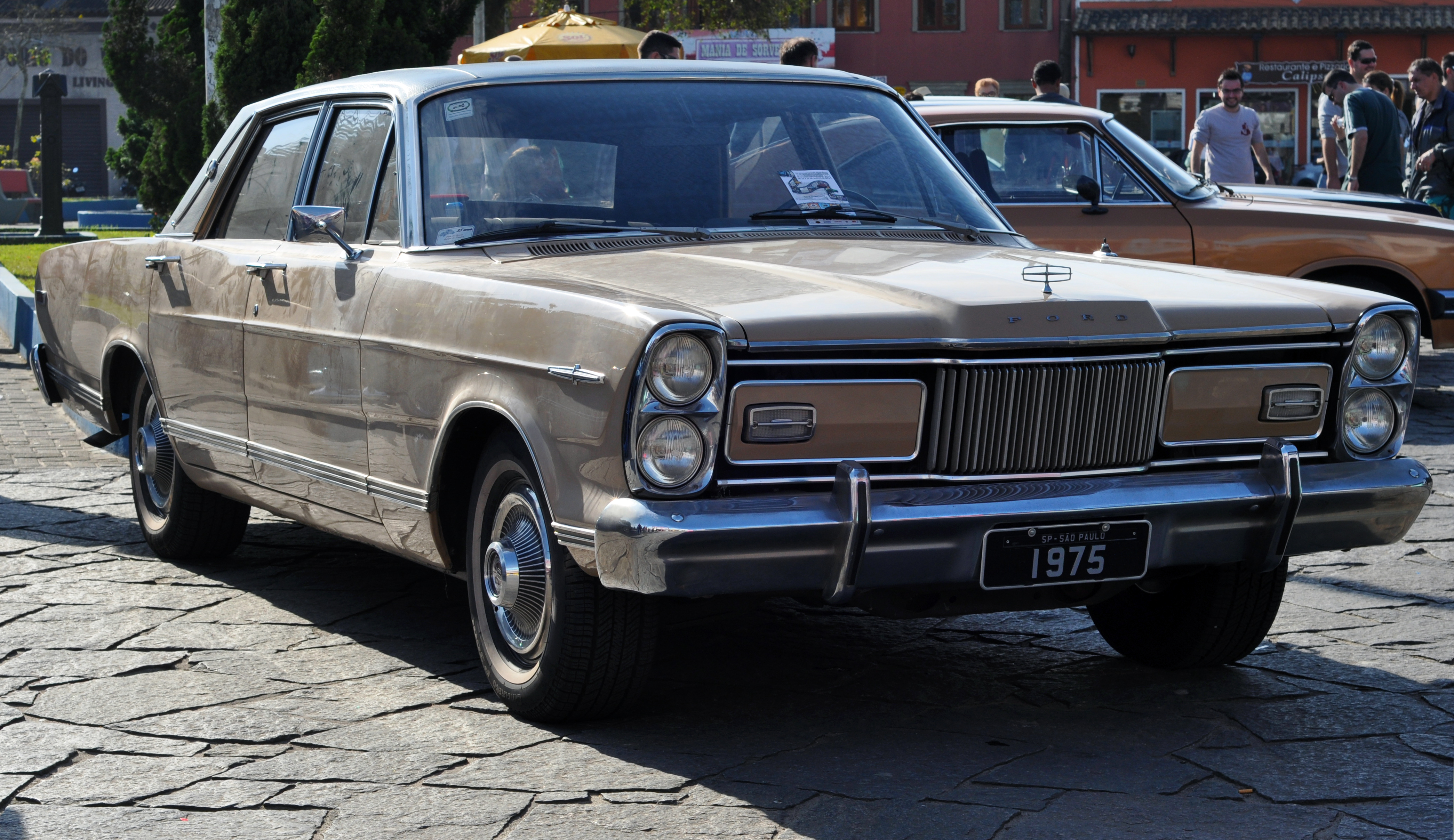 1975 Ford LTD Landau, last year of the original bodystyle